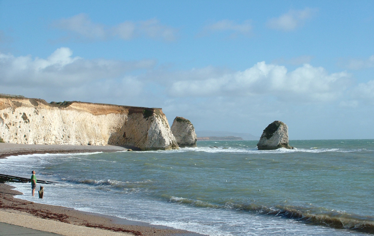 Freshwater Bay